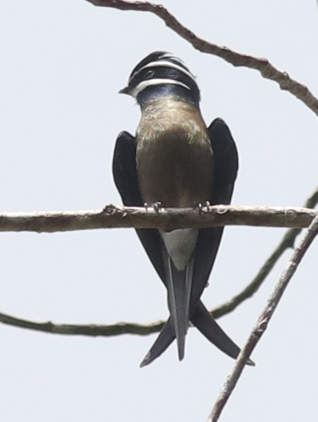 Hemiprocne comata, Whiskered Treeswift, Malaysia - Taman Negara